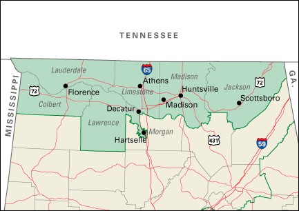 Alabama's 5th Congressional District